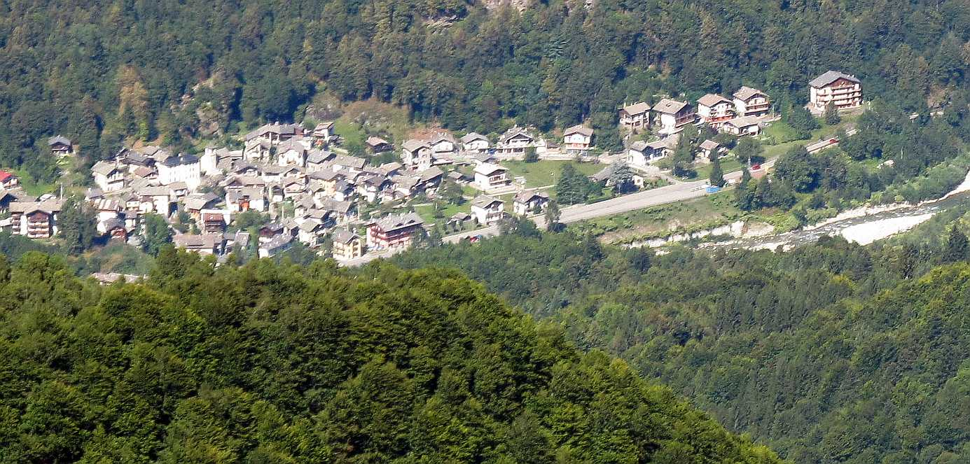 Pila (VC, Italy) from Testone delle Tre Alpi eastern slopes